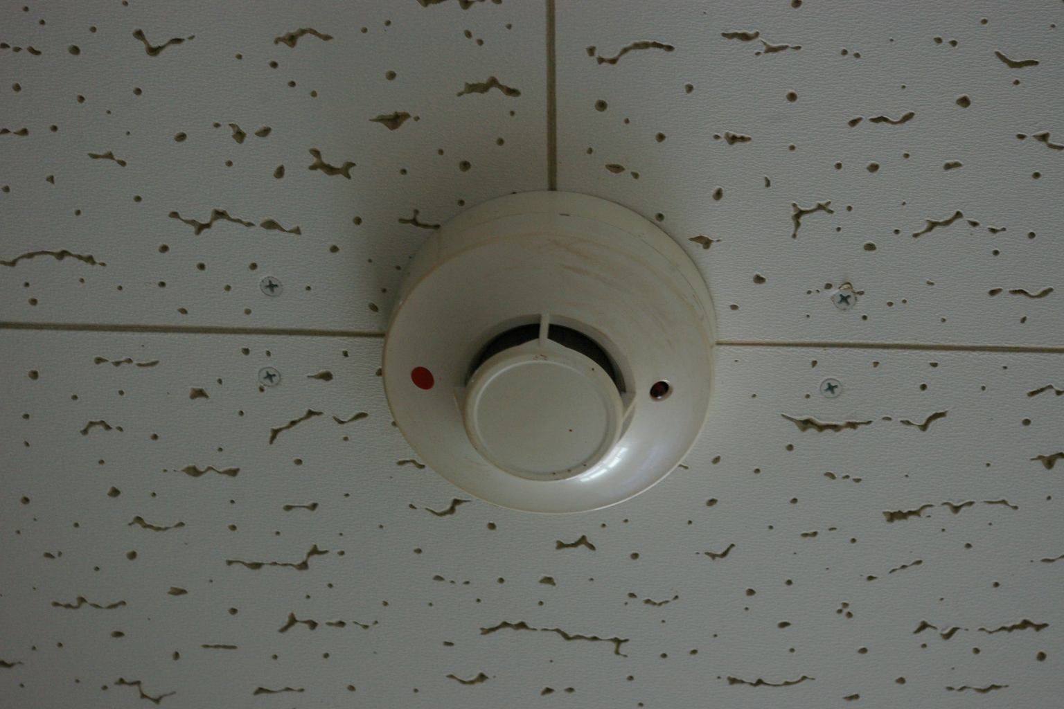 Photoelectric spot type smoke detector.